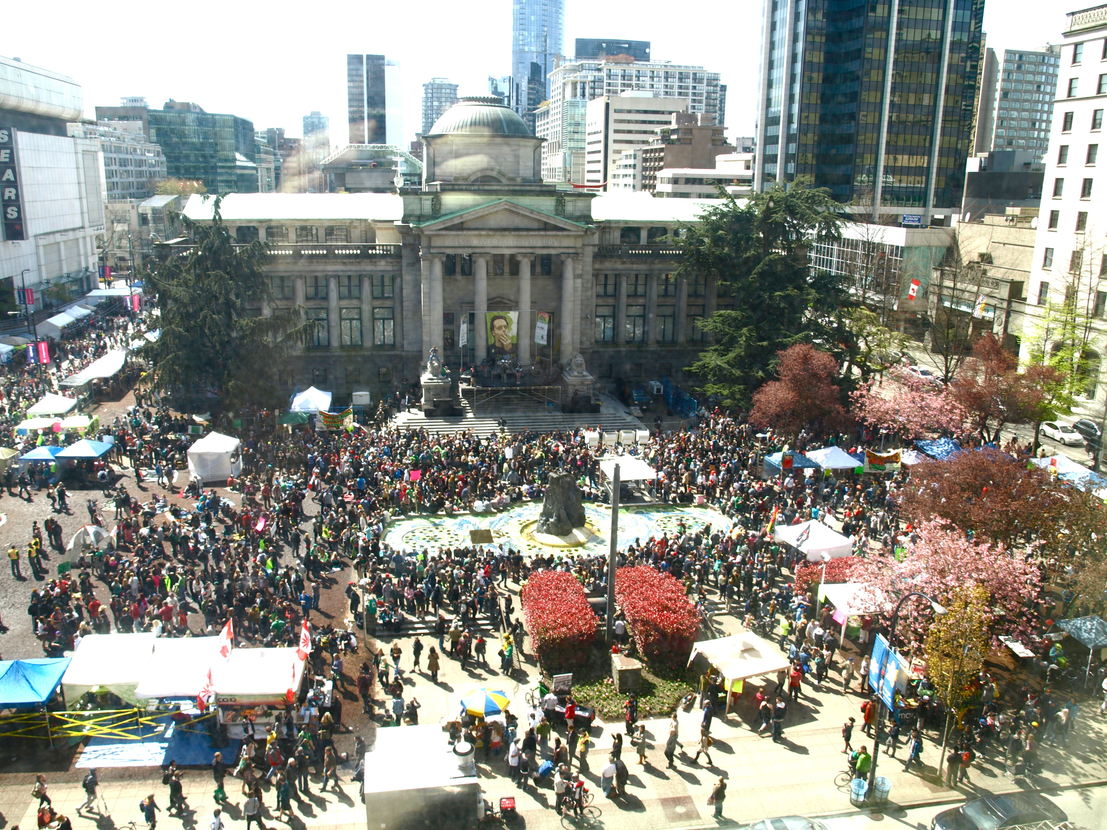 Vancouver, Canada. 2012 April 20 crowd